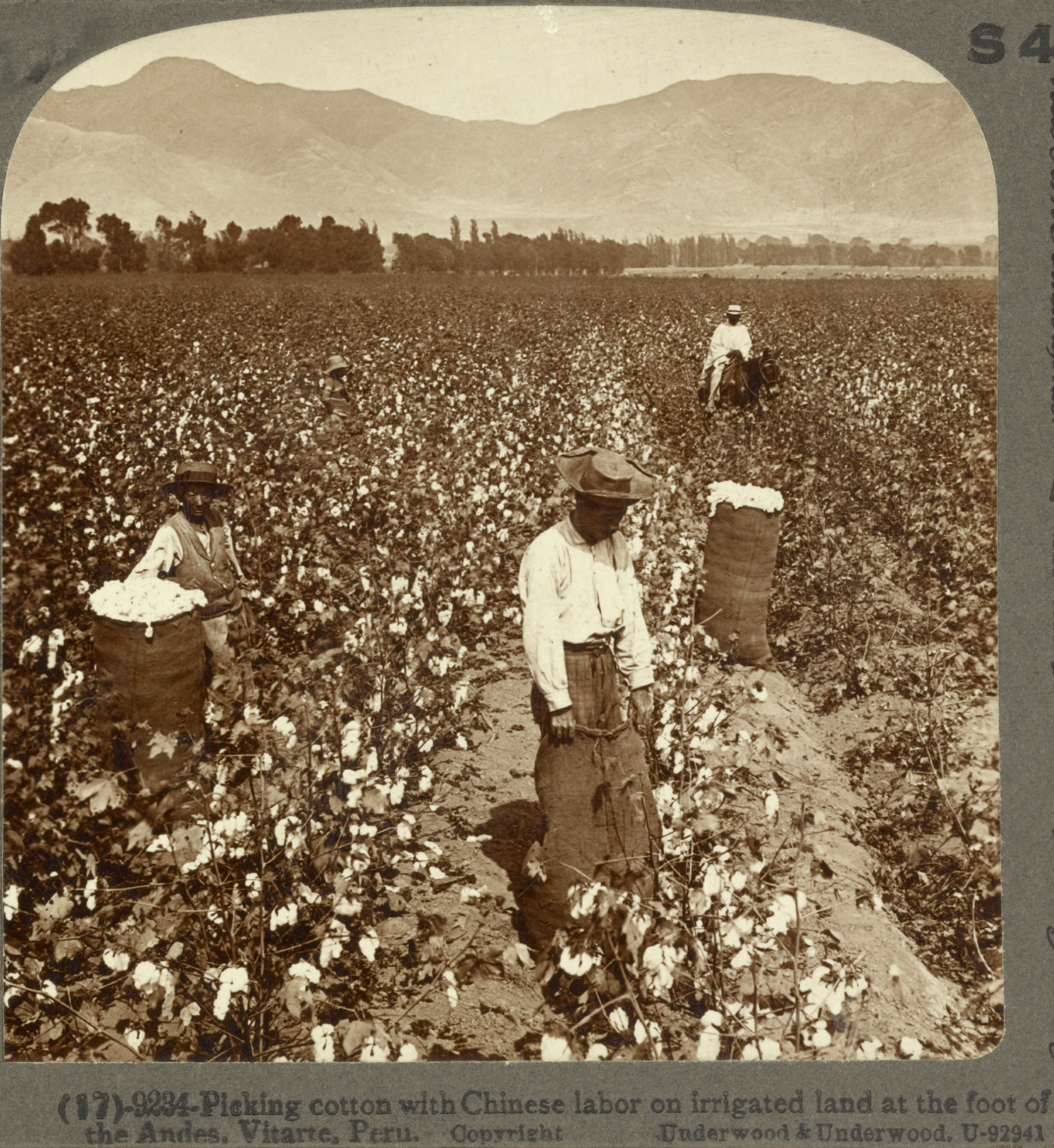 Chinese immigrants picking cotton in Ate, Peru.